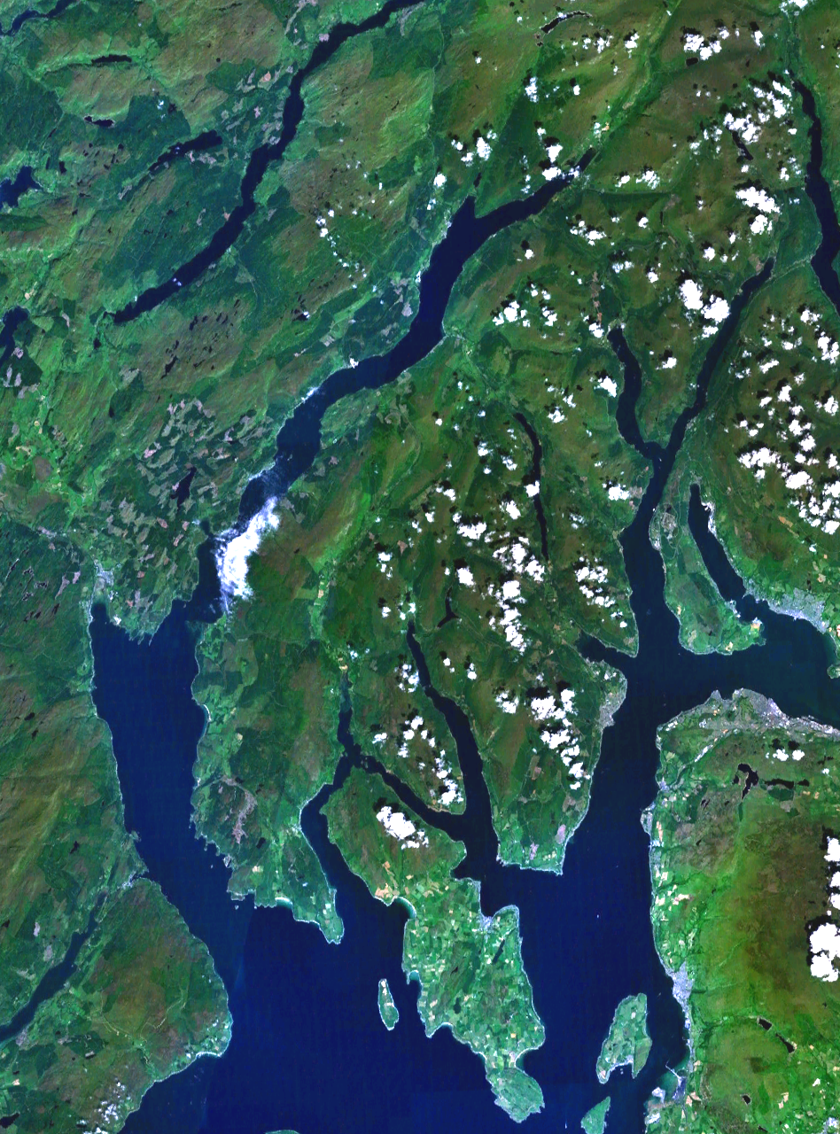 Scotland's Cowal peninsula. PD Landsat images, prepared using NASA World Wind.